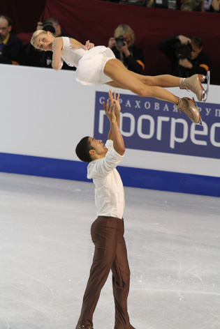 Aliona Savchenko and Robin Szolkowy at the 2010 European Figure Skating Championships.